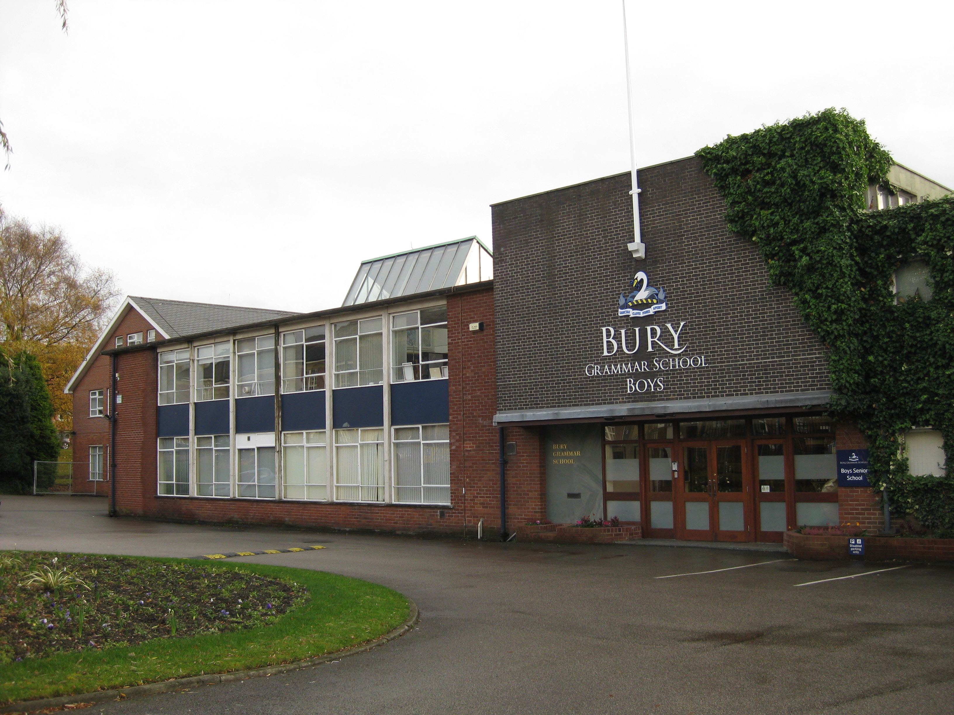 Bury Grammar School for Boys main entrance